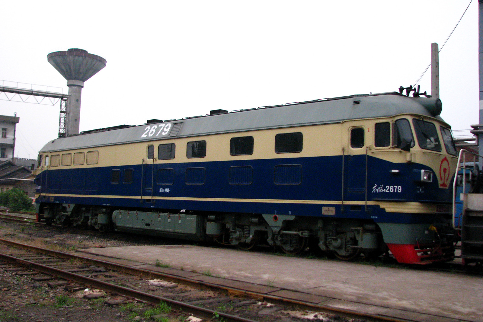 China Railways DF4B 2679 diesel locomotive at Nanjing West locomotive depot